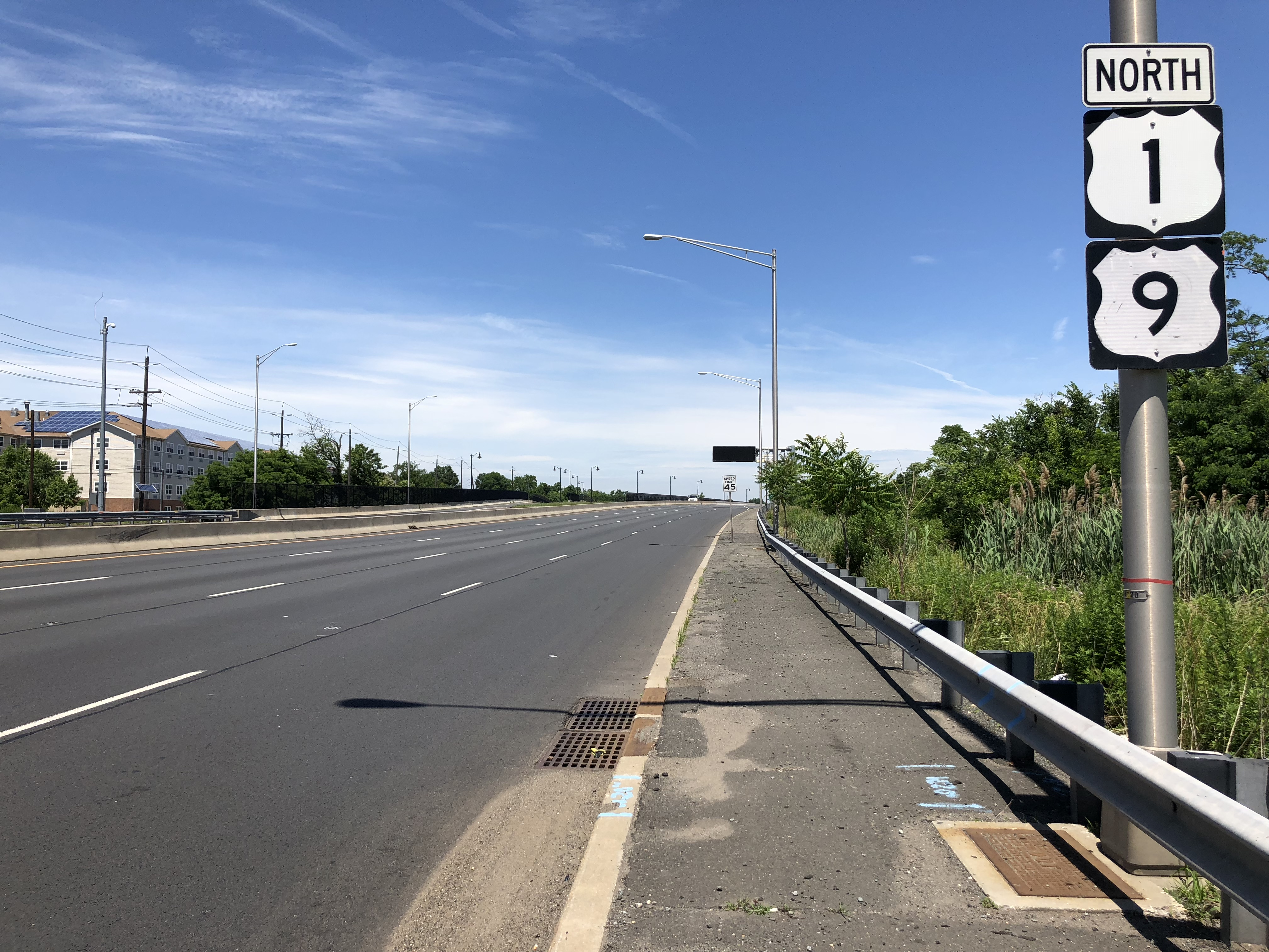 View north along U.S. Route 1 and U.S. Route 9 (Edgar Road) just north of Randolph Avenue in Rahway, Union County, New Jersey